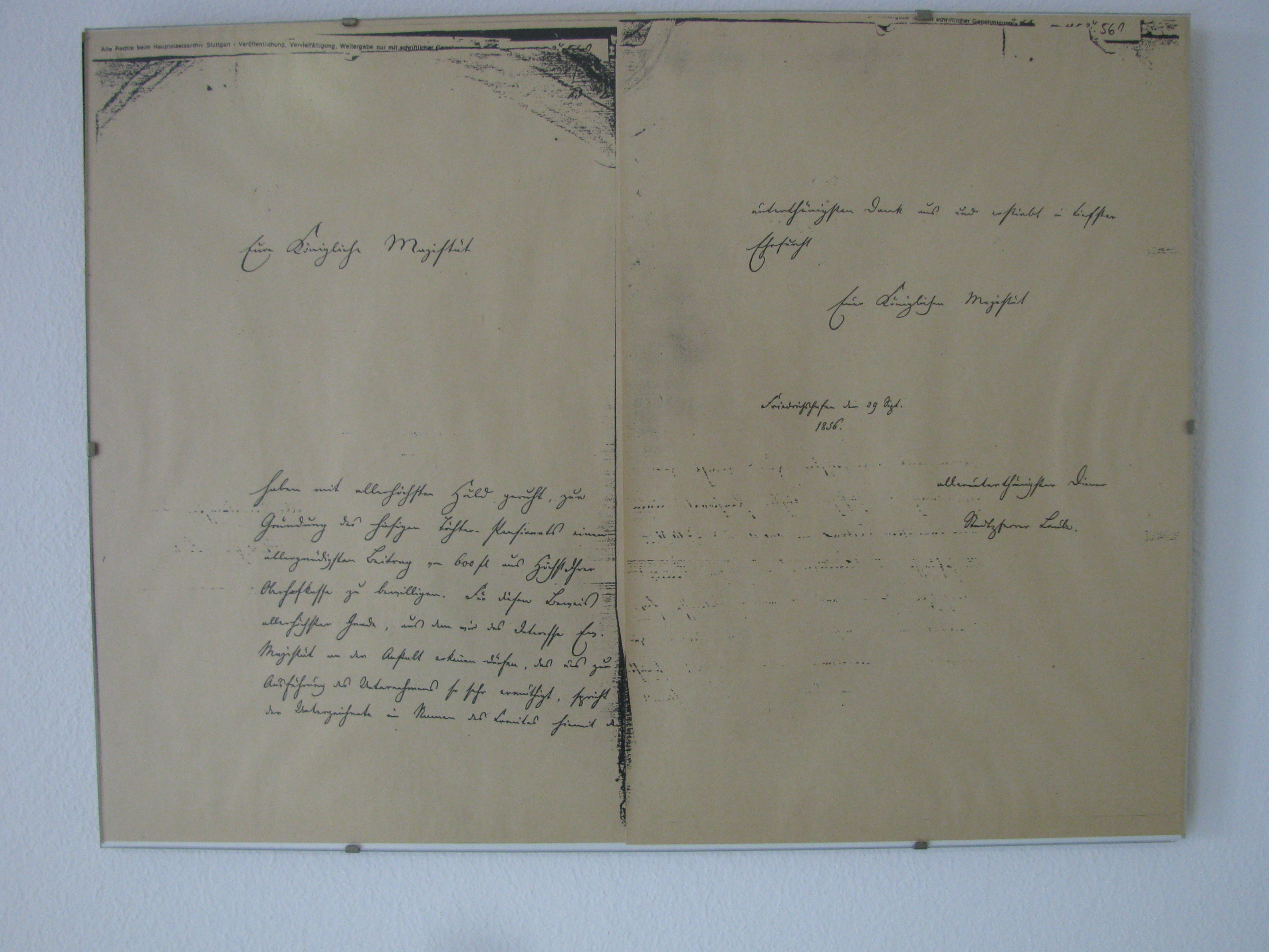 Germany - Baden-Württemberg - Bodenseekreis - Friedrichshafen: Königin Paulinenstift - handwritten letter to Duchess Pauline Therese Luise of Württemberg